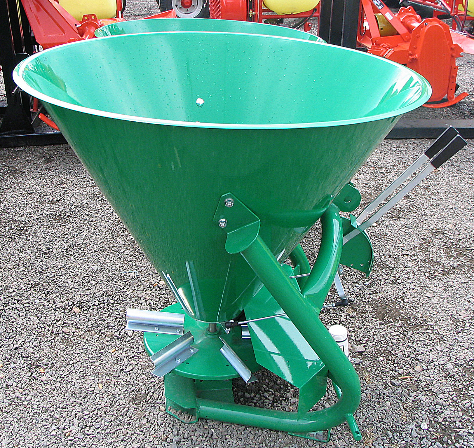 Broadcast spreader